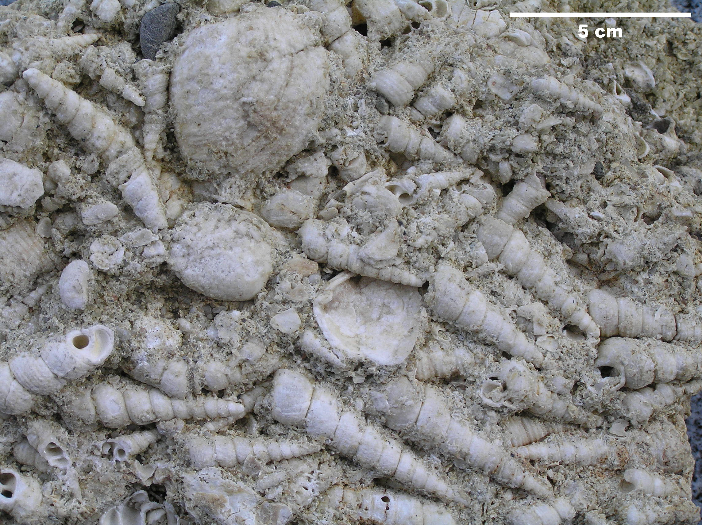 Turritella limestone from the Lower Miocene “Turritellenplatte” of Ermingen near Ulm, SW Germany, showing mass occurrence of the eponymous gastropod Turritella accompanied by some bivalves